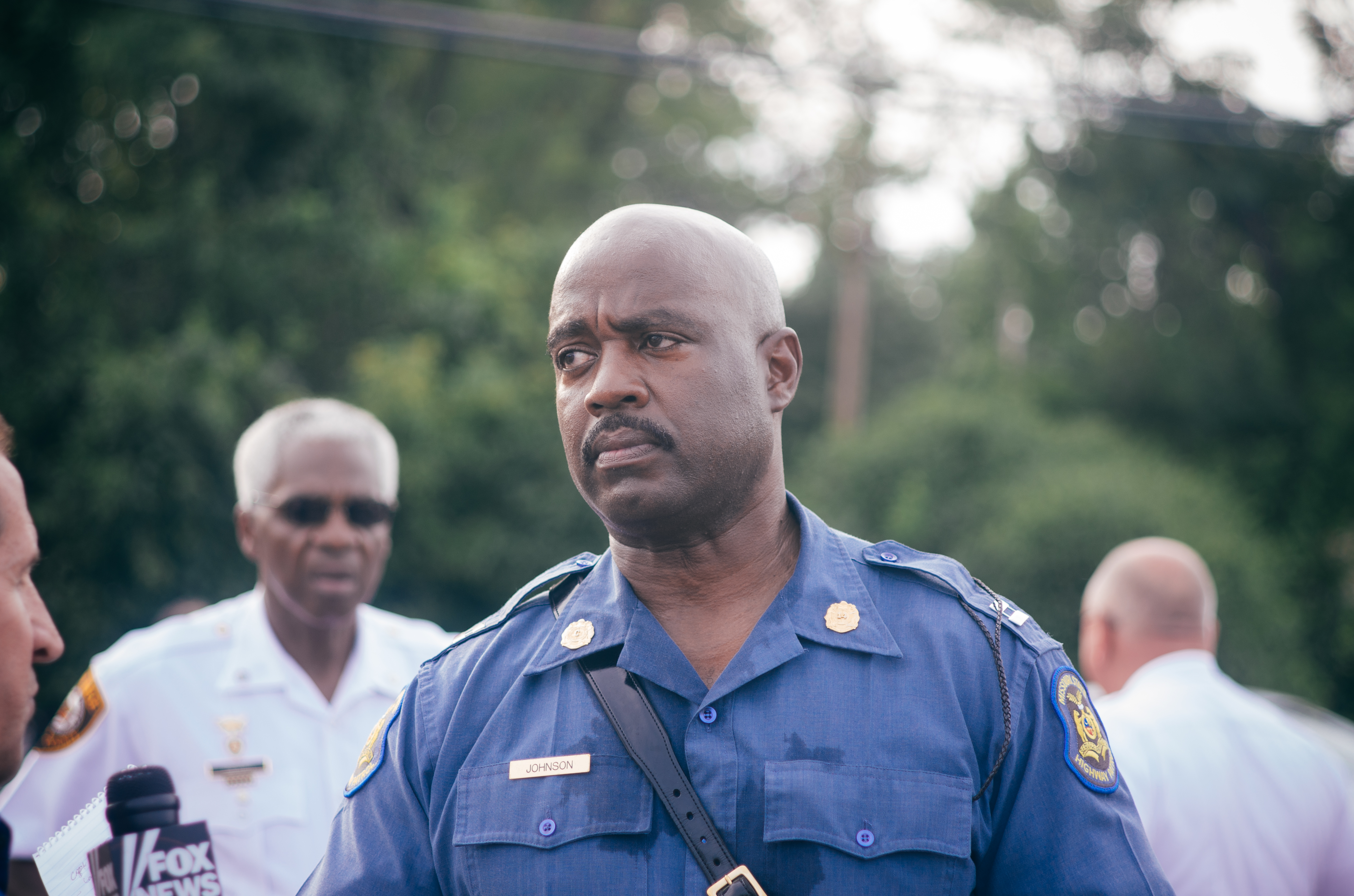 Ron Johnson speaks to reporters